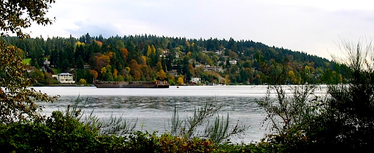 My (Dara Korra'ti/Dawnstar Graphics) original photograph taken in 2005, of the Arrowhead neighbourhood in Kenmore. Shot taken from across Lake Washington, in Log Boom Park, looking south-southwest.